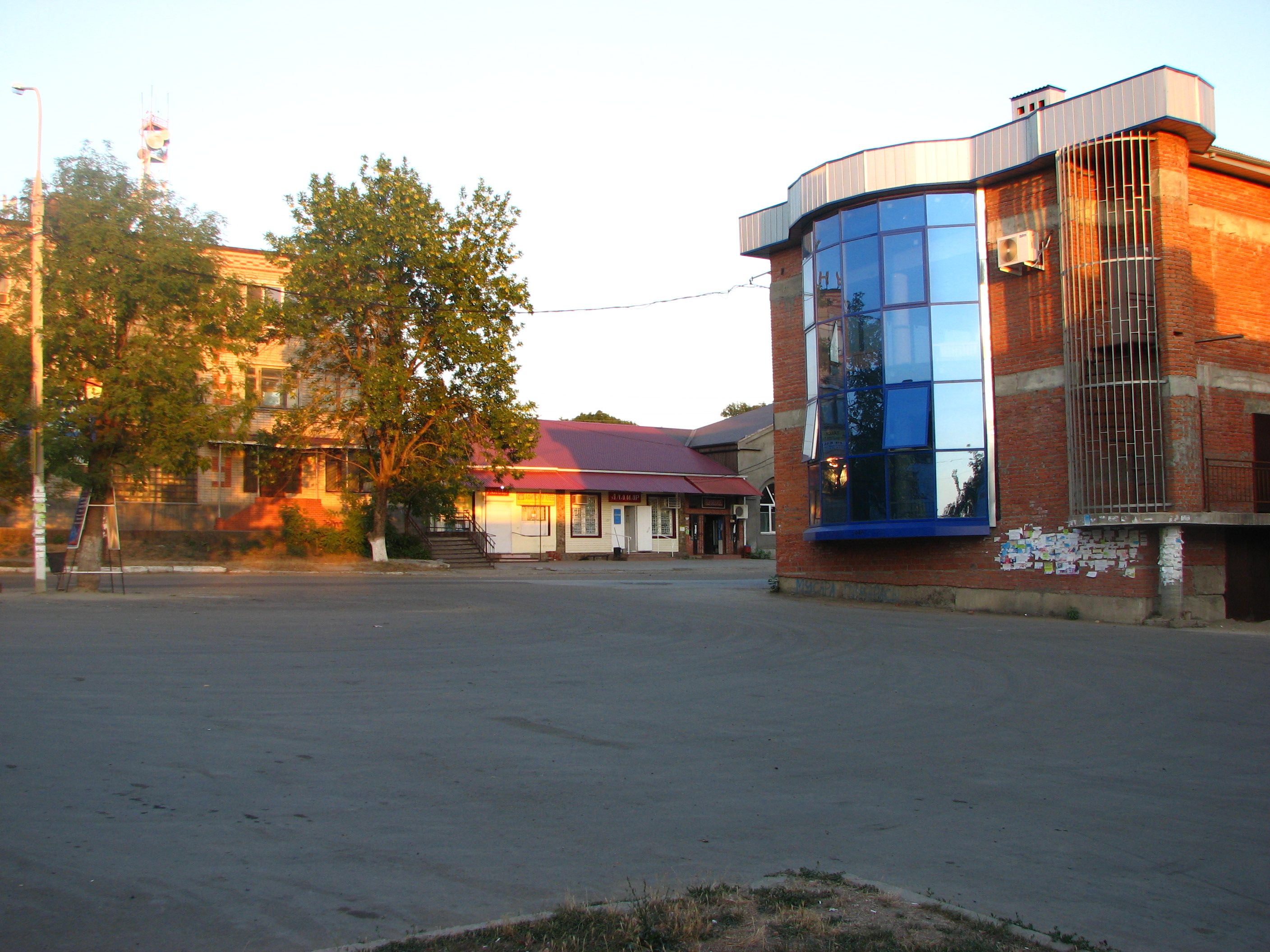 Автостанция